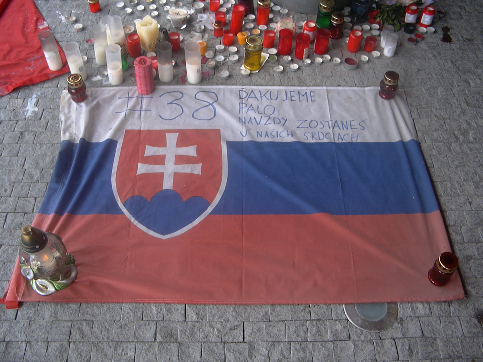 Pavol Demitra - Tribute (Ondrej Nepela Arena, Bratislava)